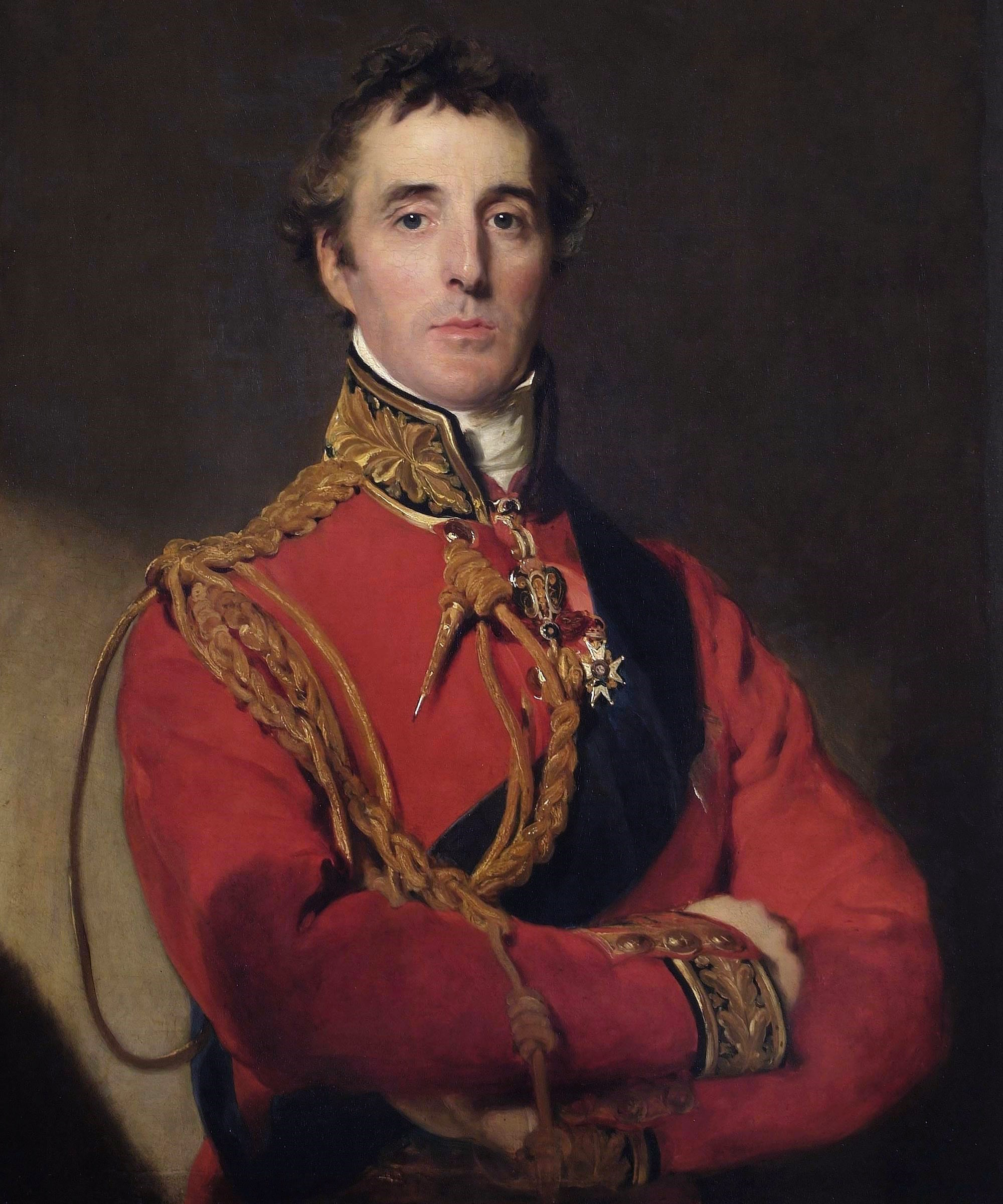 The Duke of Wellington is standing at half-length, wearing Field Marshal’s uniform, with the Garter star and sash, the badge of the Golden Fleece, and a special badge ordered by the Prince Regent to be worn from 1815 by Knights Grand Cross of the Military Division of the Order of the Bath who were also Knights Companion of the Order of the Garter.